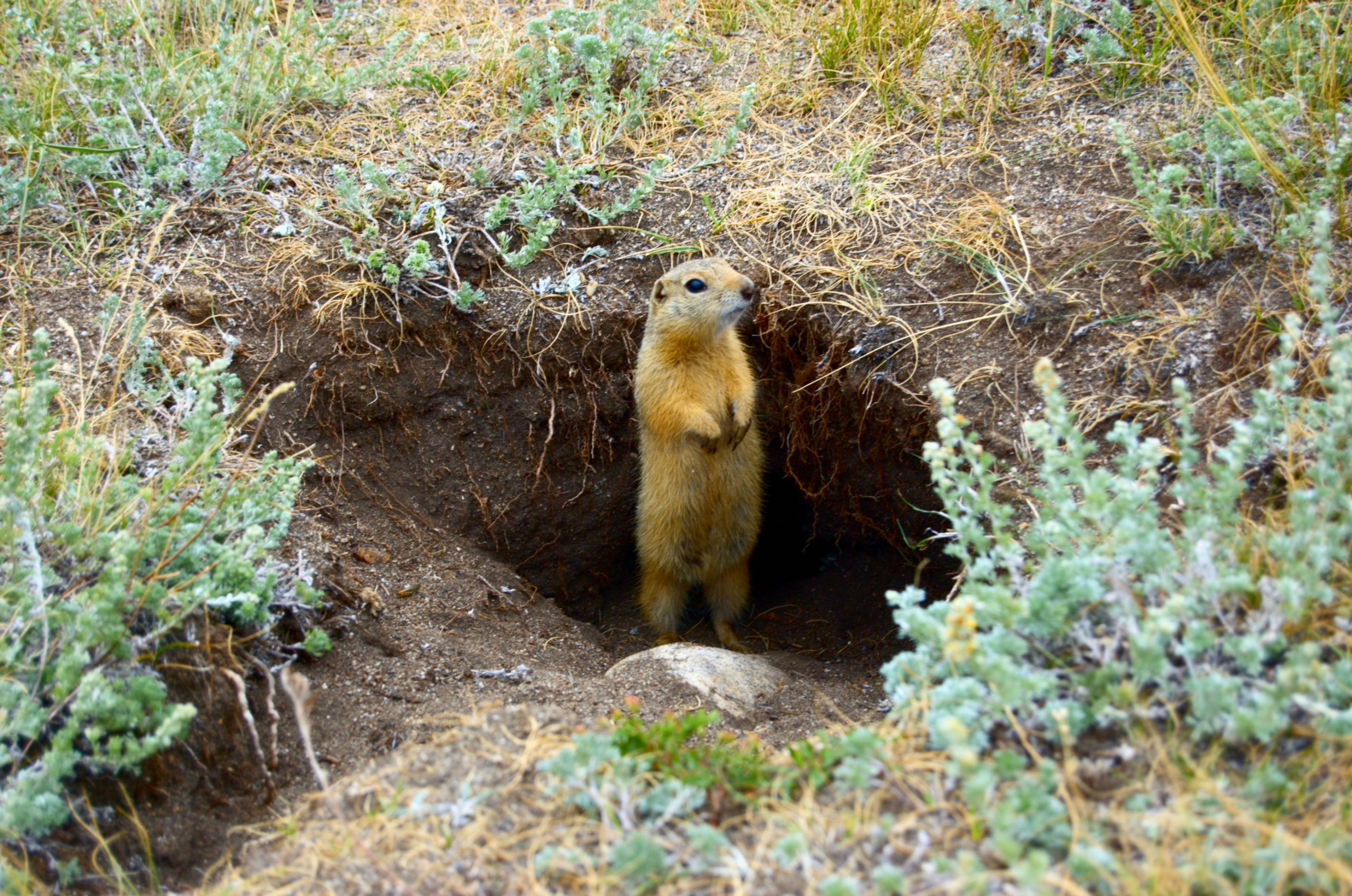 Long-tailed Ground Squirrel Urocitellus undulatus (syn. Spermophilus undulatus), Olkhon, Lake Baikal, Russia.